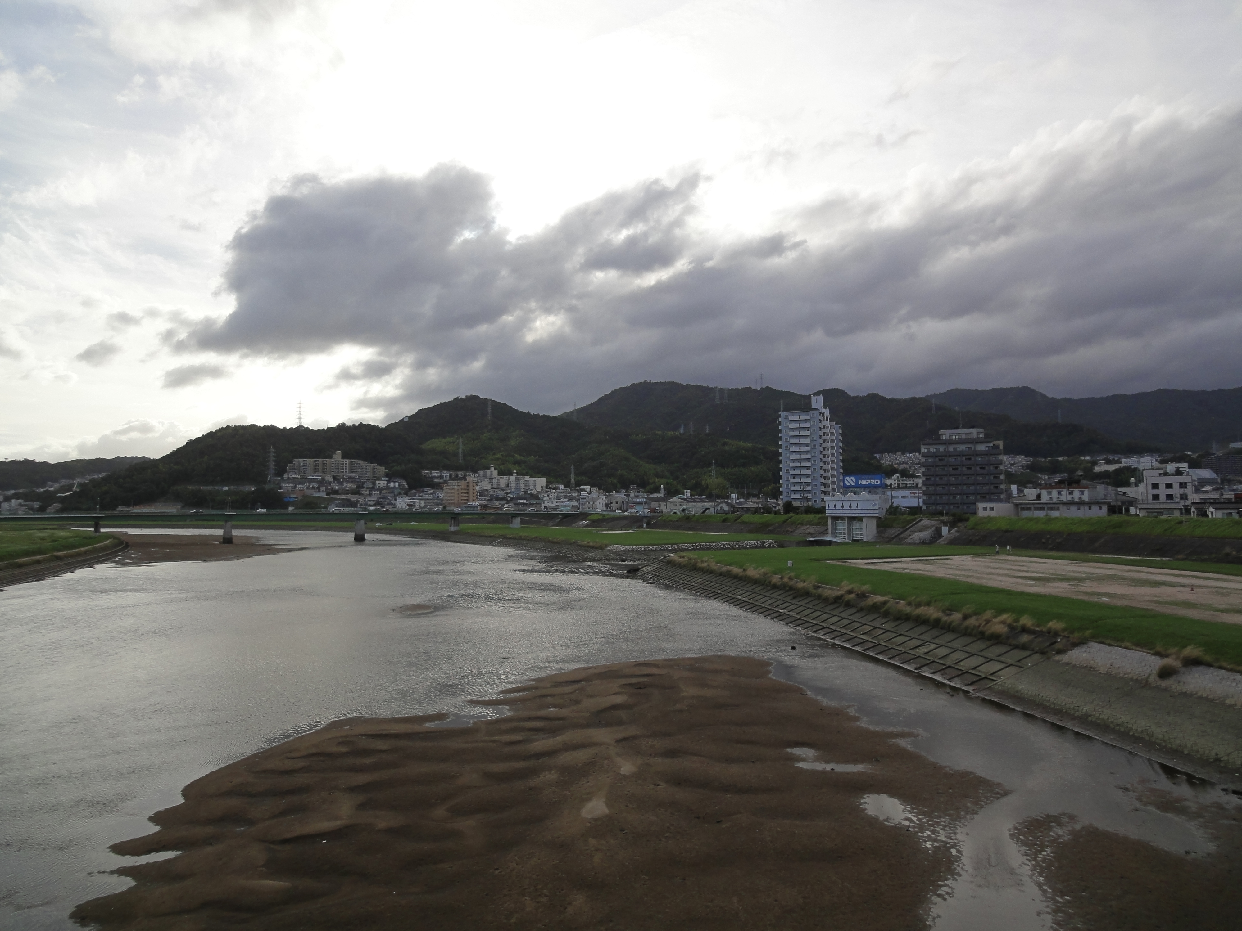 Mount Souko, view from Gion-Ohashi Bridge. Asaminami-ku, Hiroshima city, Hiroshima pref., Japan.